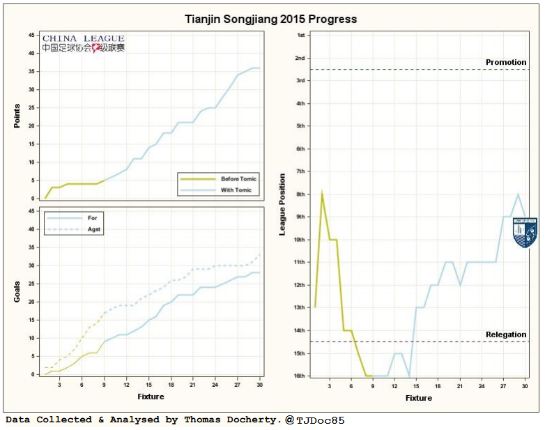 Tianjin Songjiang 2015 Progress Under Goran Tomic